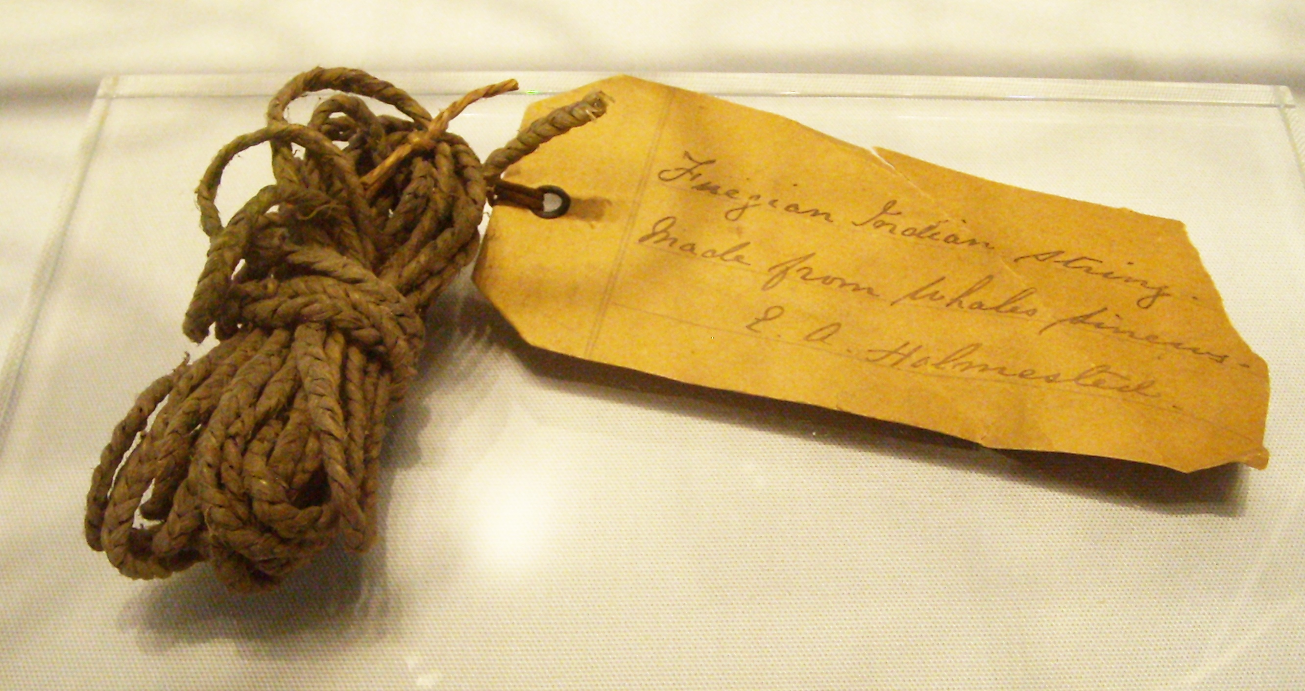 String made by Native Americans from Tierra del Fuego from whale sinews, collected by Ernest Augustus Holmested in the late 19th century and on display in The Higgins museum and gallery in Bedford.